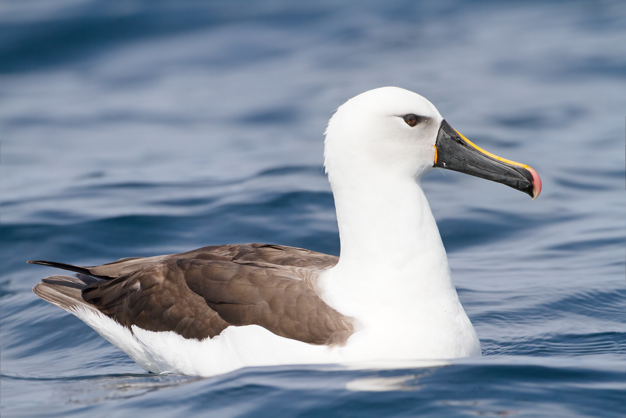 Indian Yellow-nosed Albatross (Thalassarche carteri), East of the Tasman Peninsula, Tasmania, Australia